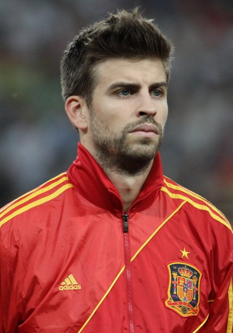 Gerard Piqué at Euro 2012 match Spain-France